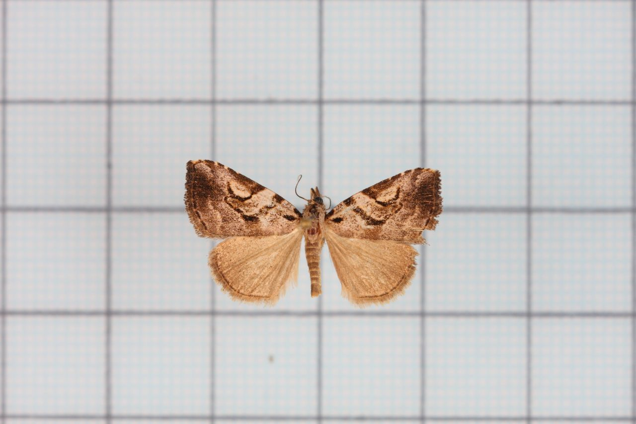 Oglasa mediopallens Wileman & South, 1917 鞍1:P.66,Pl.16-15 female